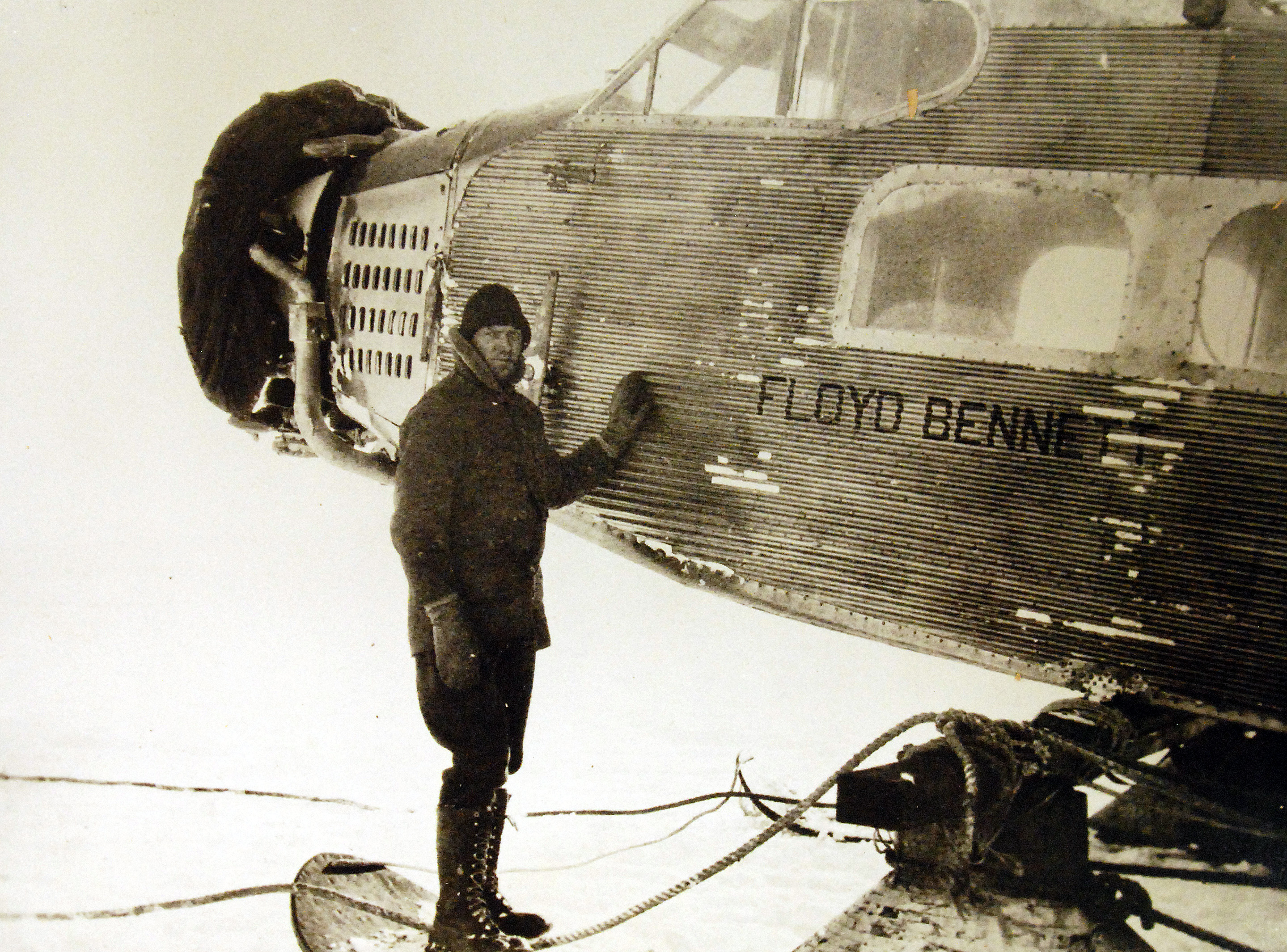 Commander Richard E. Byrd’s First Antarctic Expedition, 1928-1930. With the Byrd Expedition in Antarctica. Elbert J. Thawley, engineer of the “Eleanor Bolling” standing beside the fuselage of the high, tri-motored Ford plane, “Floyd Bennett,” before the ship was transported to Little America, the permanent base of the party. April 1929. Courtesy of the Library of Congress. (2016/03/10). Ford 4-AT-B Tri-Motor Airplane